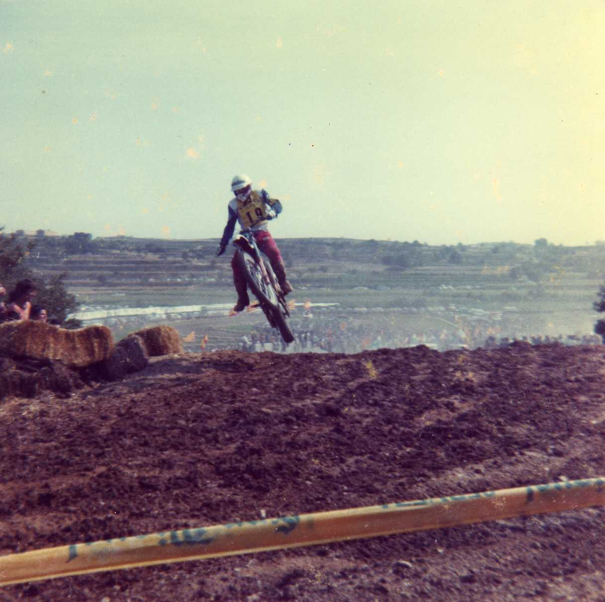 Göte Liljegren (KTM) at Circuit del Cluet, Montgai (Catalonia), during the 1978 spanish MX GP 125cc.